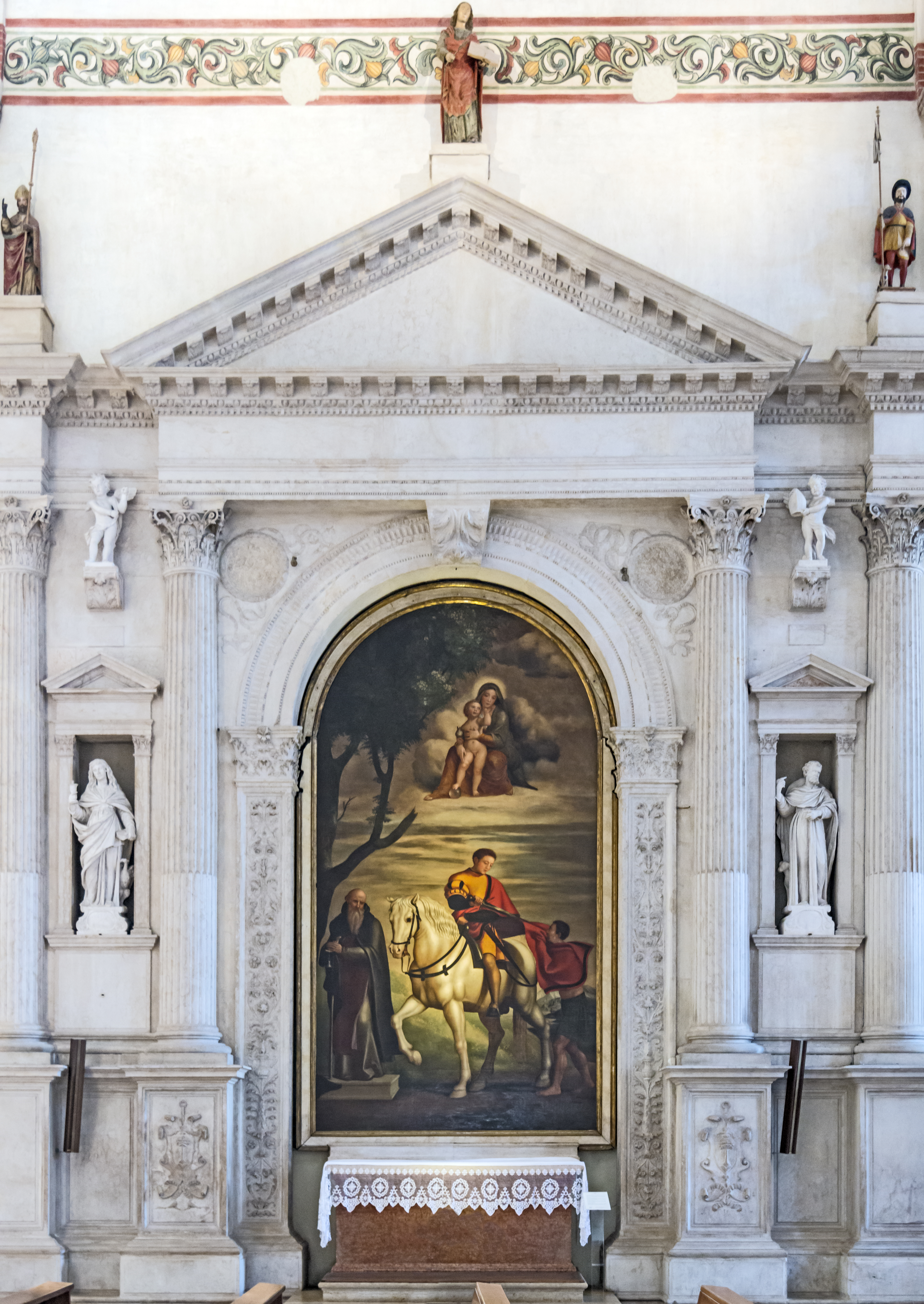 Basilica Santa Anastasia. Altar Pindemonte 1541. The table of the altar, depicting St. Martin, by Giovan Francesco Caroto.